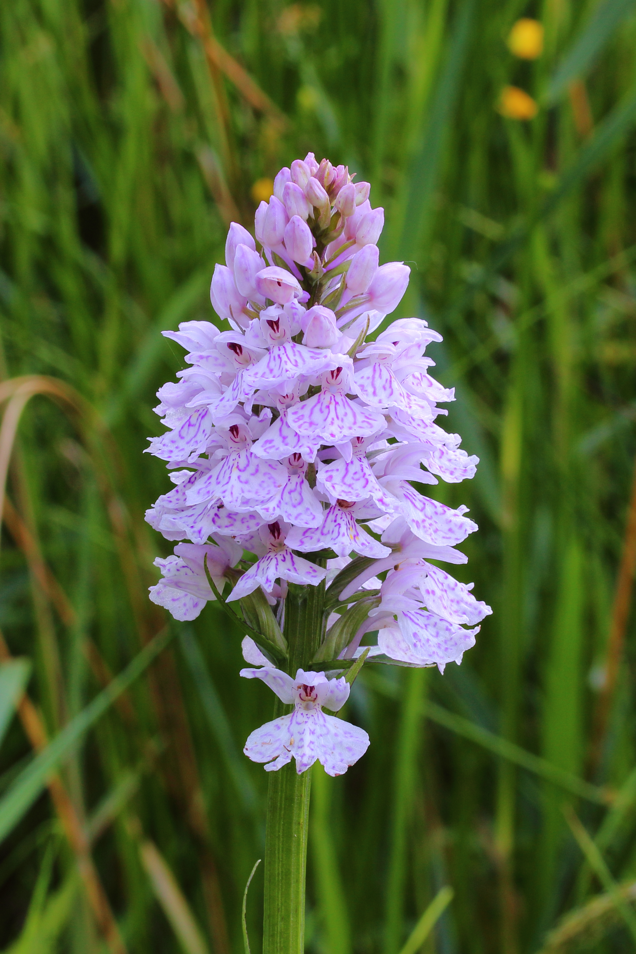 Spotted Orchid (Dactylorhiza maculata subsp. Maculata). Spotted Orchid is on the red list in the Netherlands.